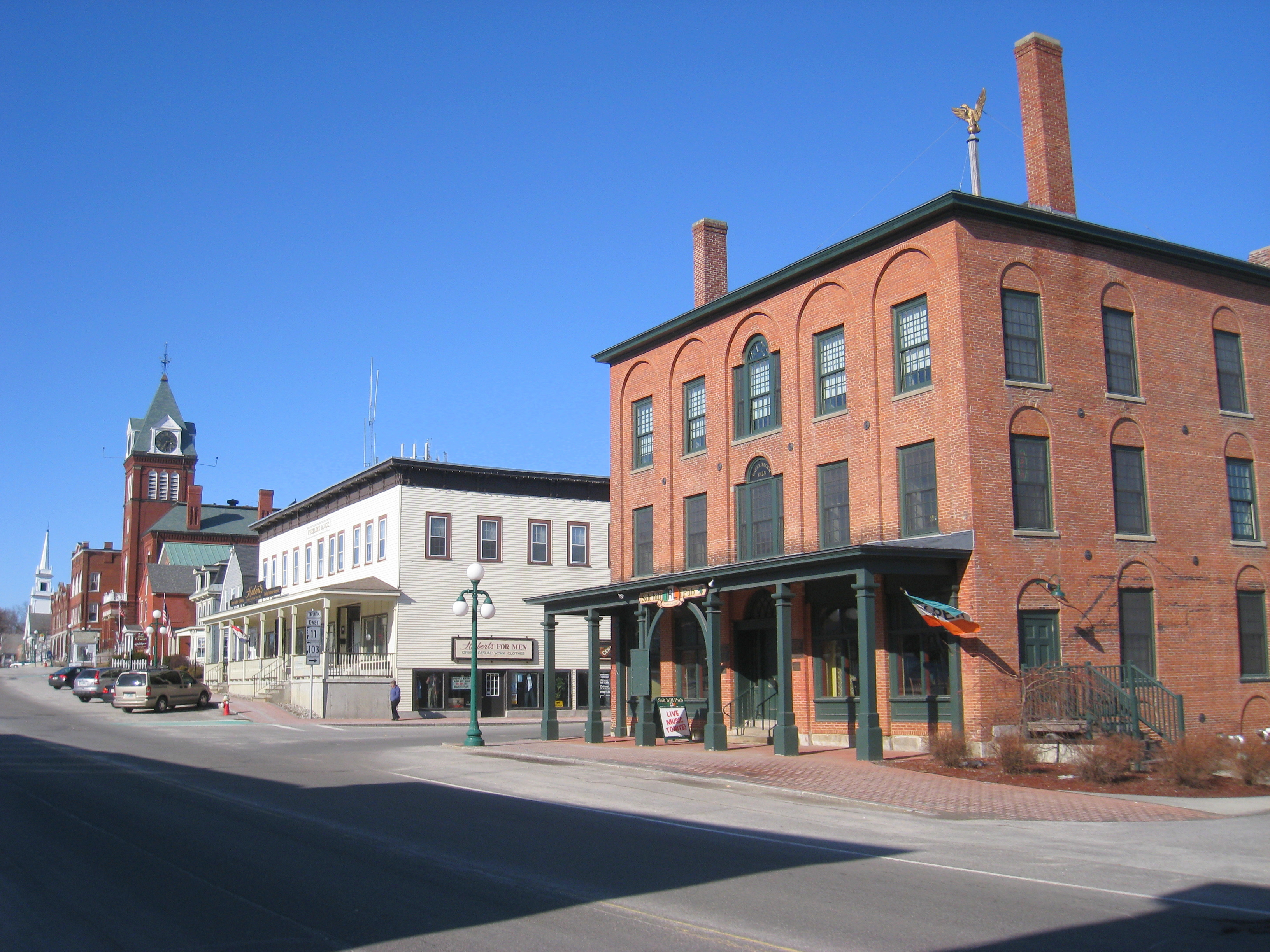 General view - Newport, New Hampshire, USA.